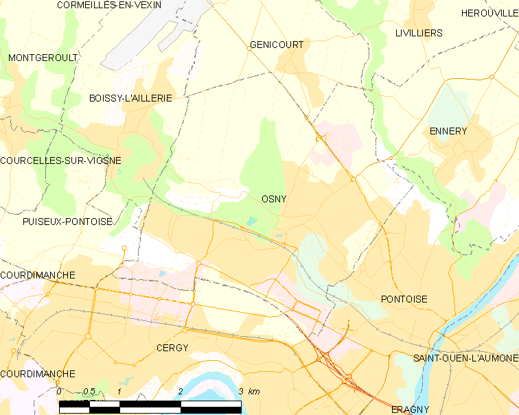 Map of French municipality Osny